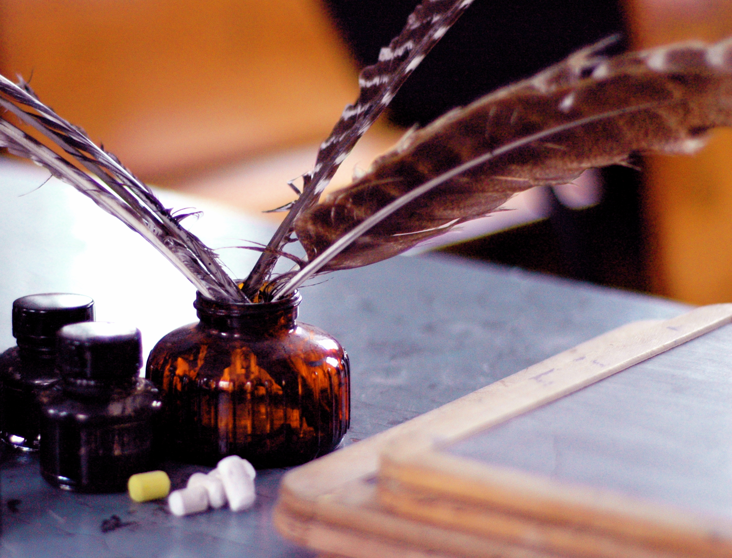 from a school trip with my son to MacSkimming Pioneer Village near Ottawa - the school house ooooozed the 3 Rs.